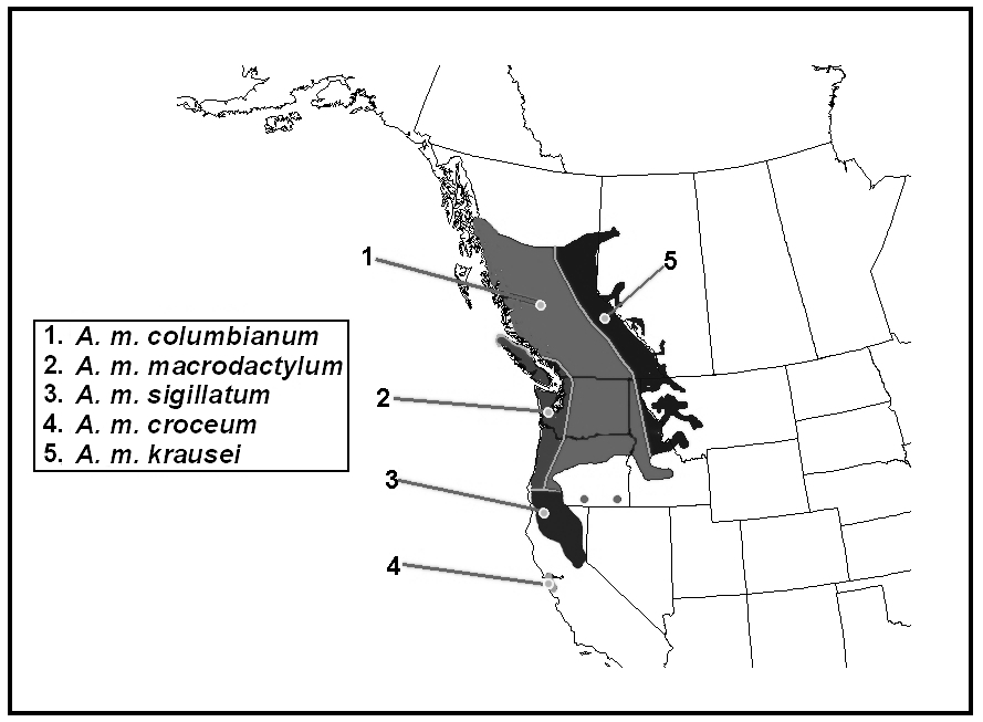 Taken from my masters thesis, M. D. Thompson (2003) Phylogeography of the long-toed salamander. Masters Thesis, University of Calgary.